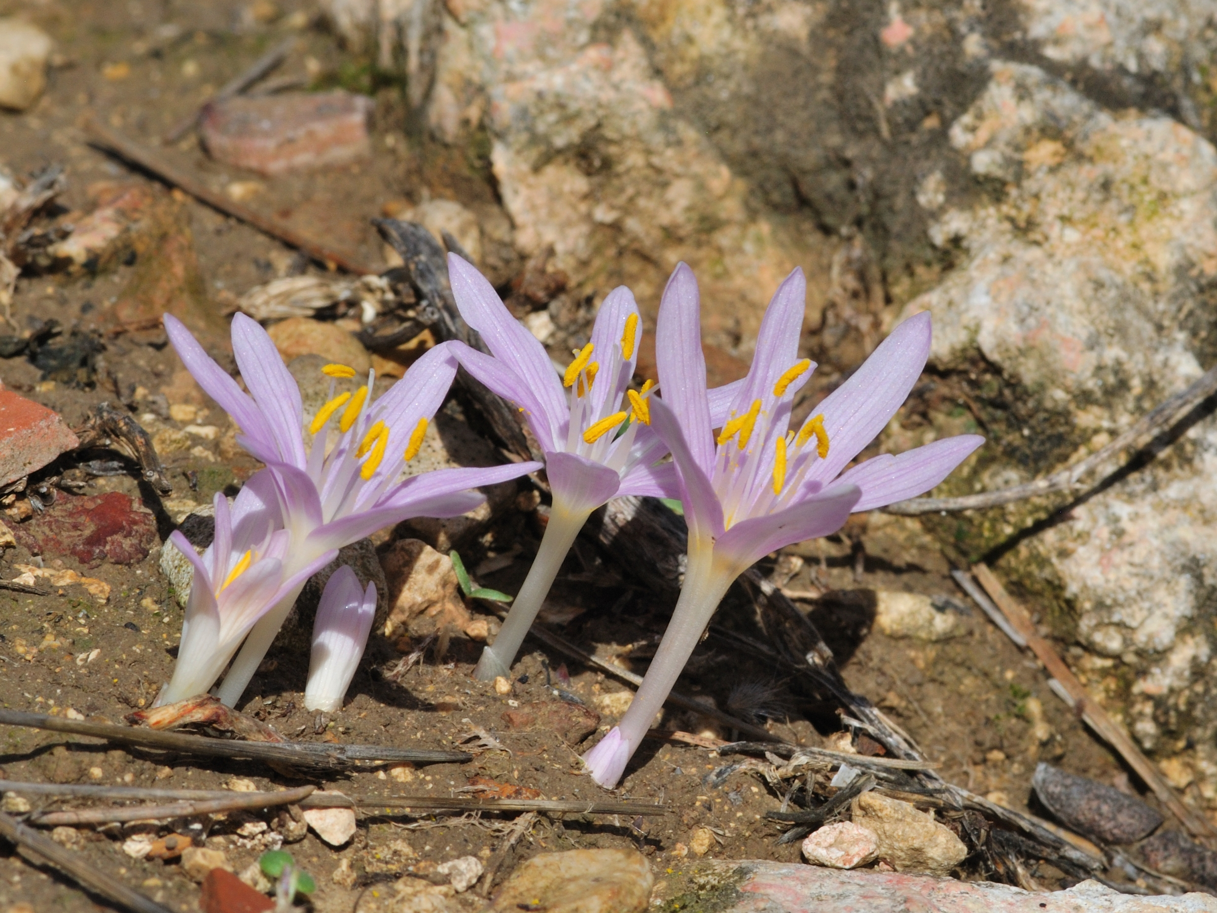 Colchicum stevenii Kunth (סתוונית היורה), Mount Carmel, Israel, November 6, 2009.